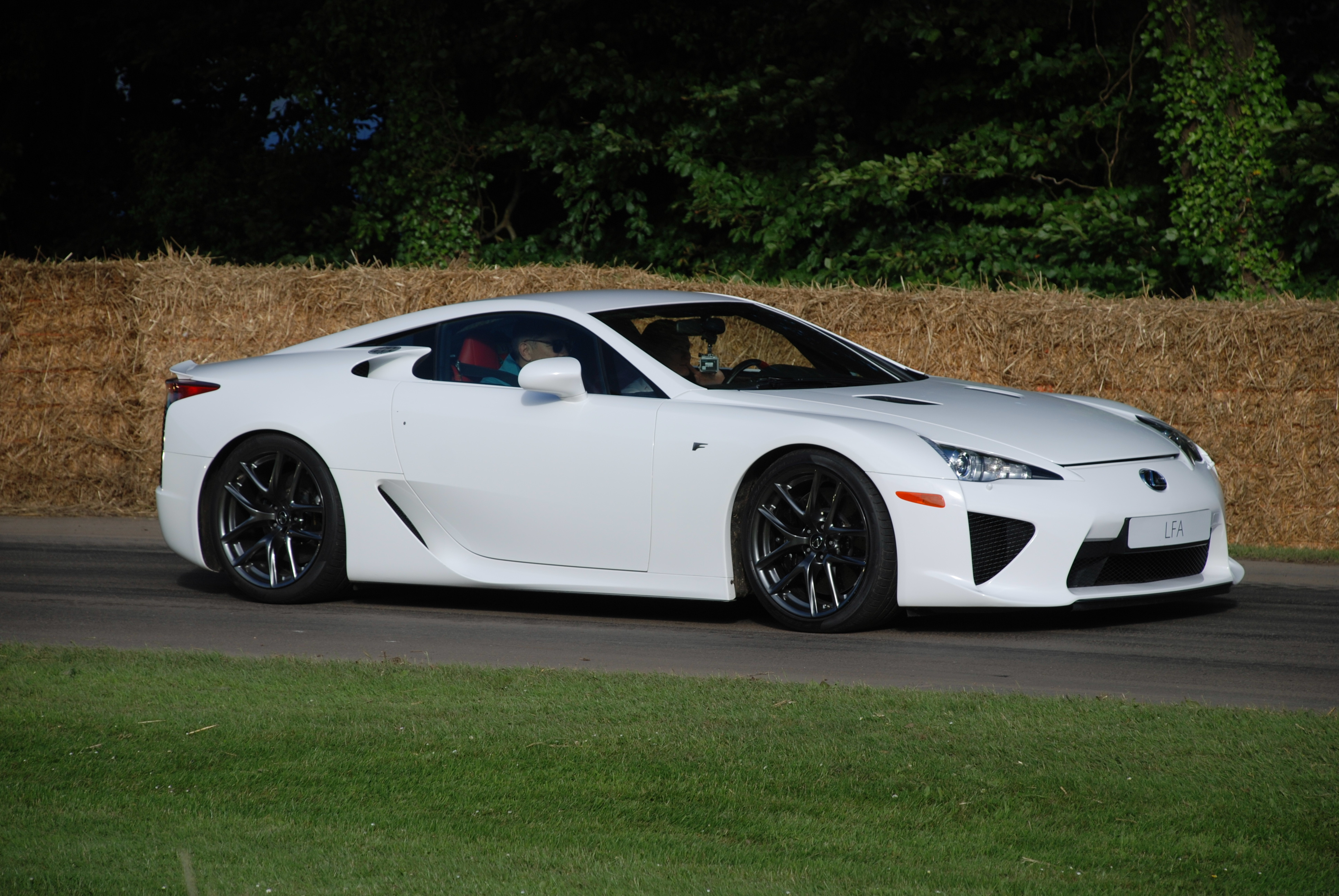 Goodwood Festival of Speed - 2016 Goodwood House England Friday 24th June 2016